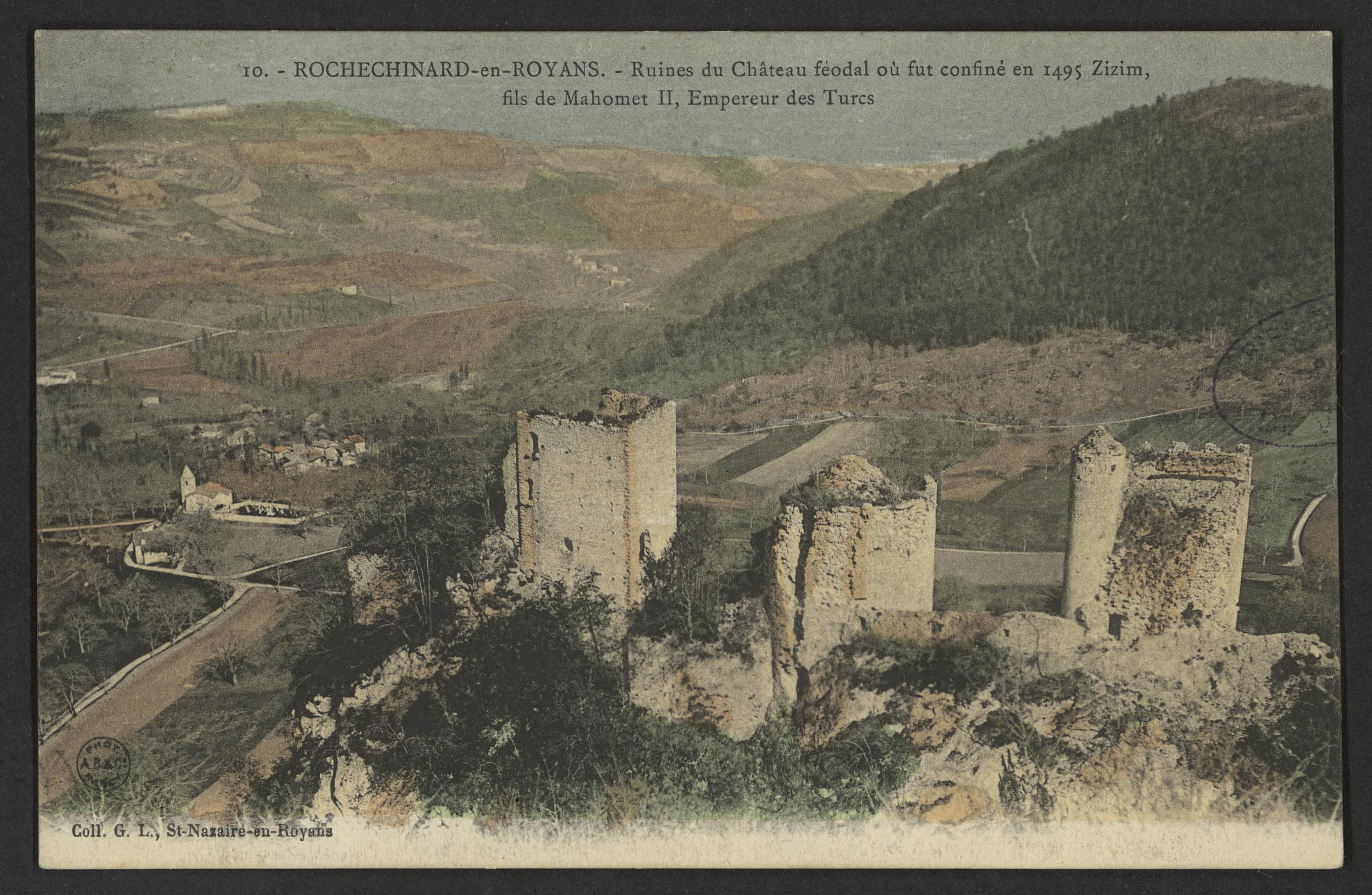 CA 1910